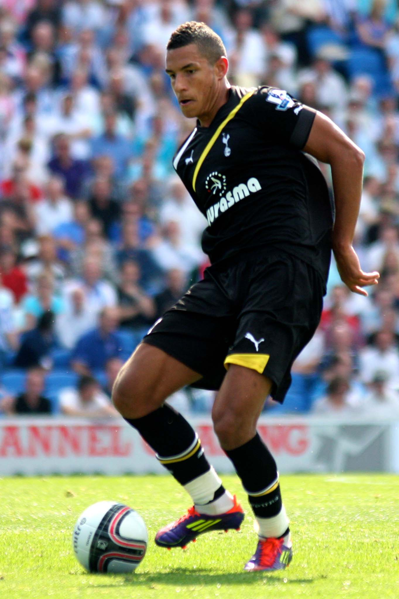 Jake Livermore of Tottenham Hotspur This file has been extracted from another file: Jake Livermore Brighton v Spurs Amex Opening 30711.jpg